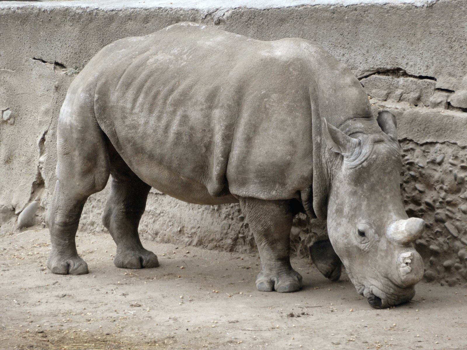 White rhino named Manuela at Tbilisi Zoo.